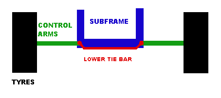 Diagram of a Lower Tie Bar. Author's own drawing.